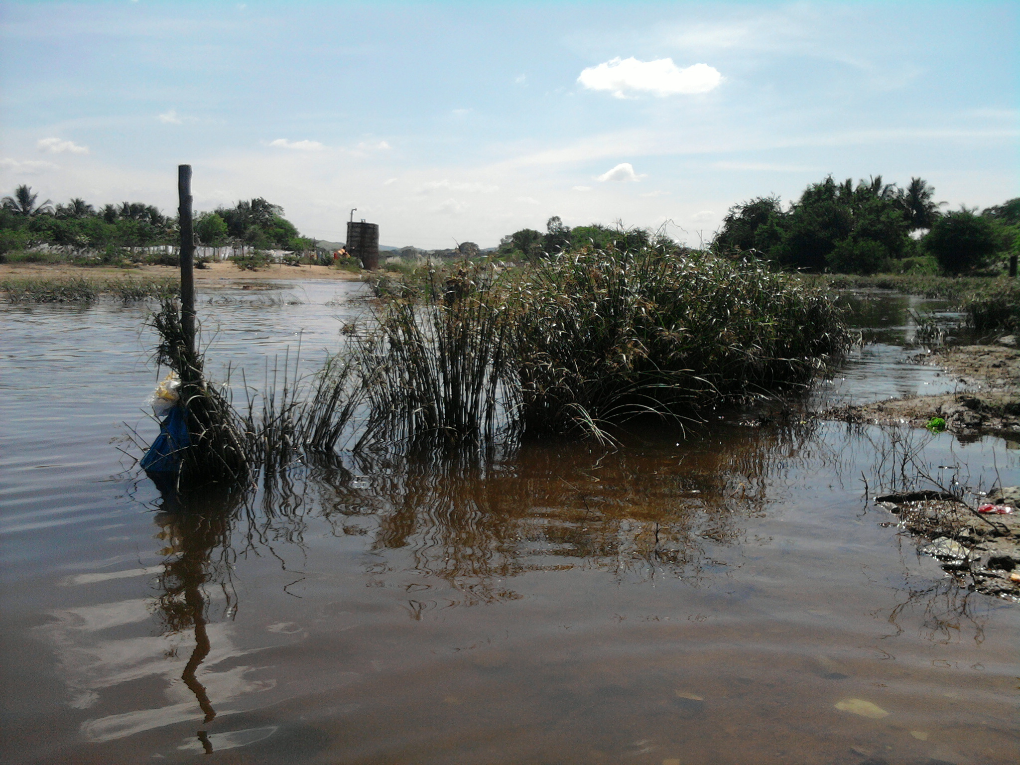 citraavati nadi tIram at puttaparti